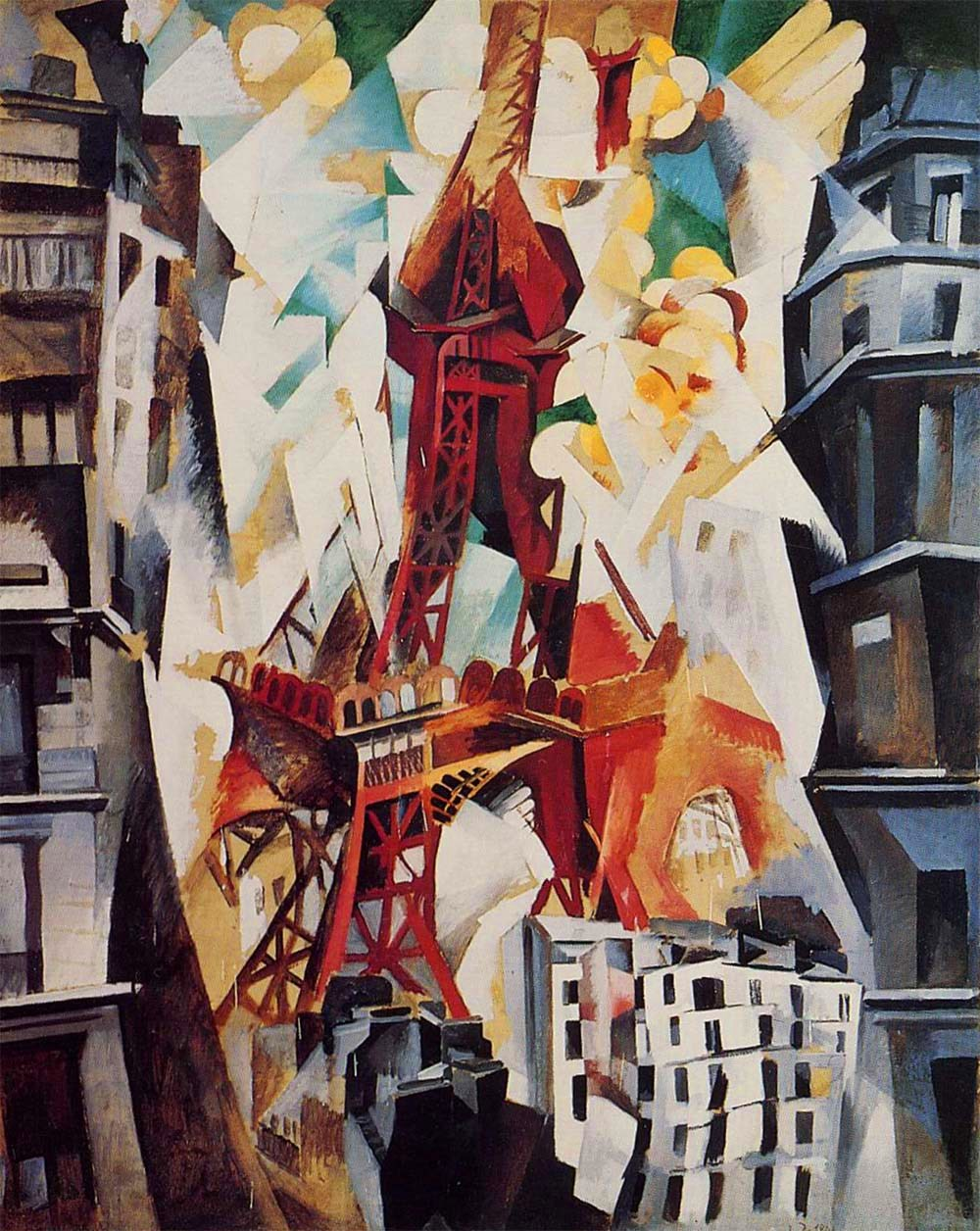 Graphic Champs de Mars: La Tour Rouge. 1911-1923, Robert Delaunay. Oil on canvas. The Art Institute of Chicago.